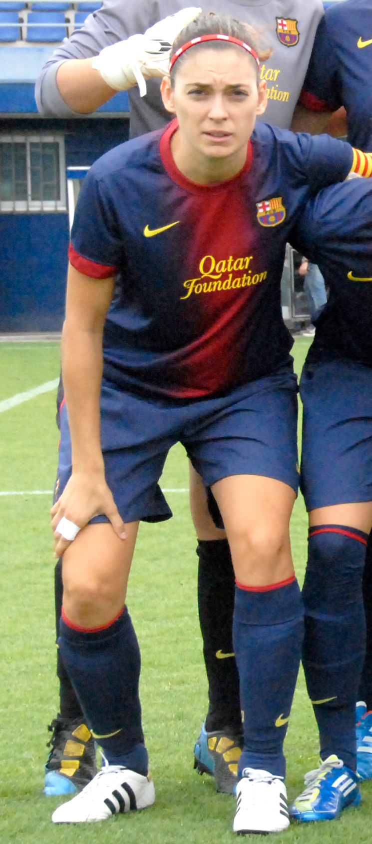 FC Barcelona women captain Ana Escribano in September 2012